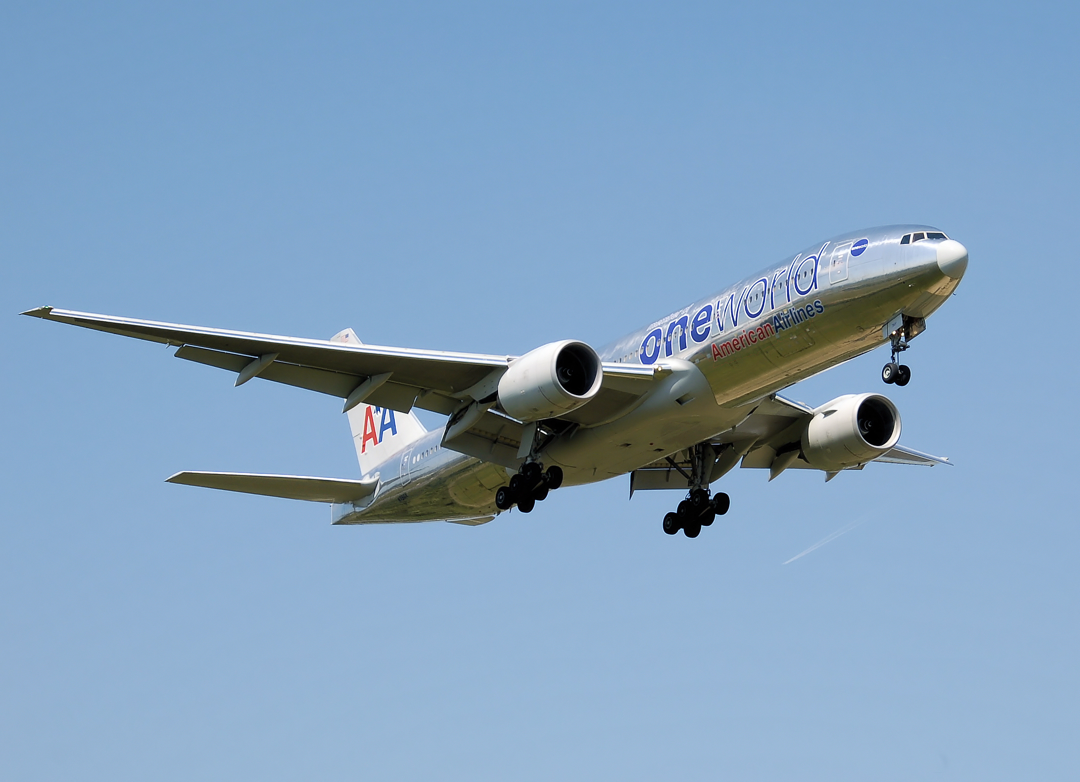 American Airlines Boeing 777-200ER (N791AN), in special Oneworld alliance livery, lands at London Heathrow Airport, England.